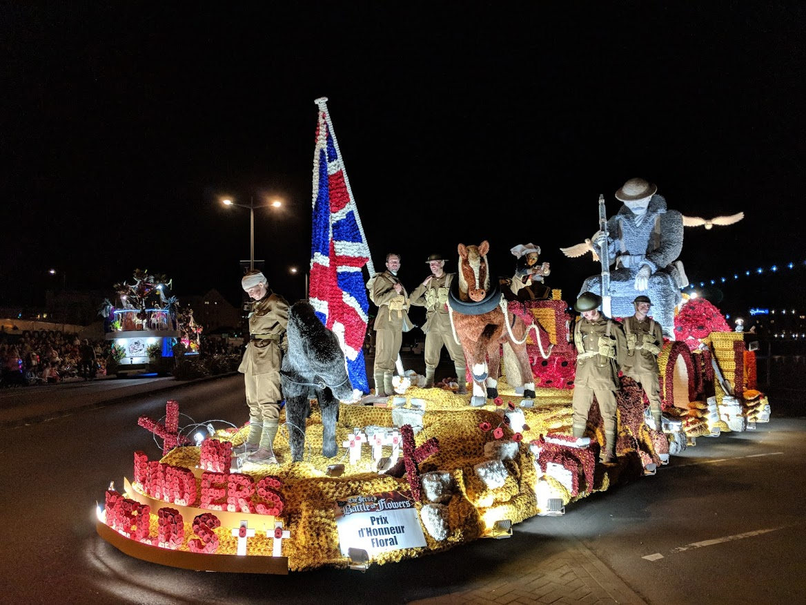 In Flanders Field by The Optimists Club, Jersey Battle of Flowers 2018